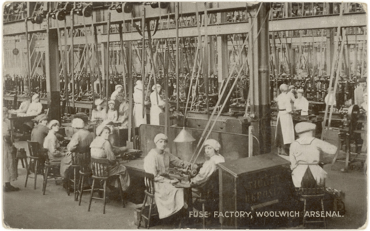 Photograph showing workers inside the Fuse Factory, Woolwich Arsenal.